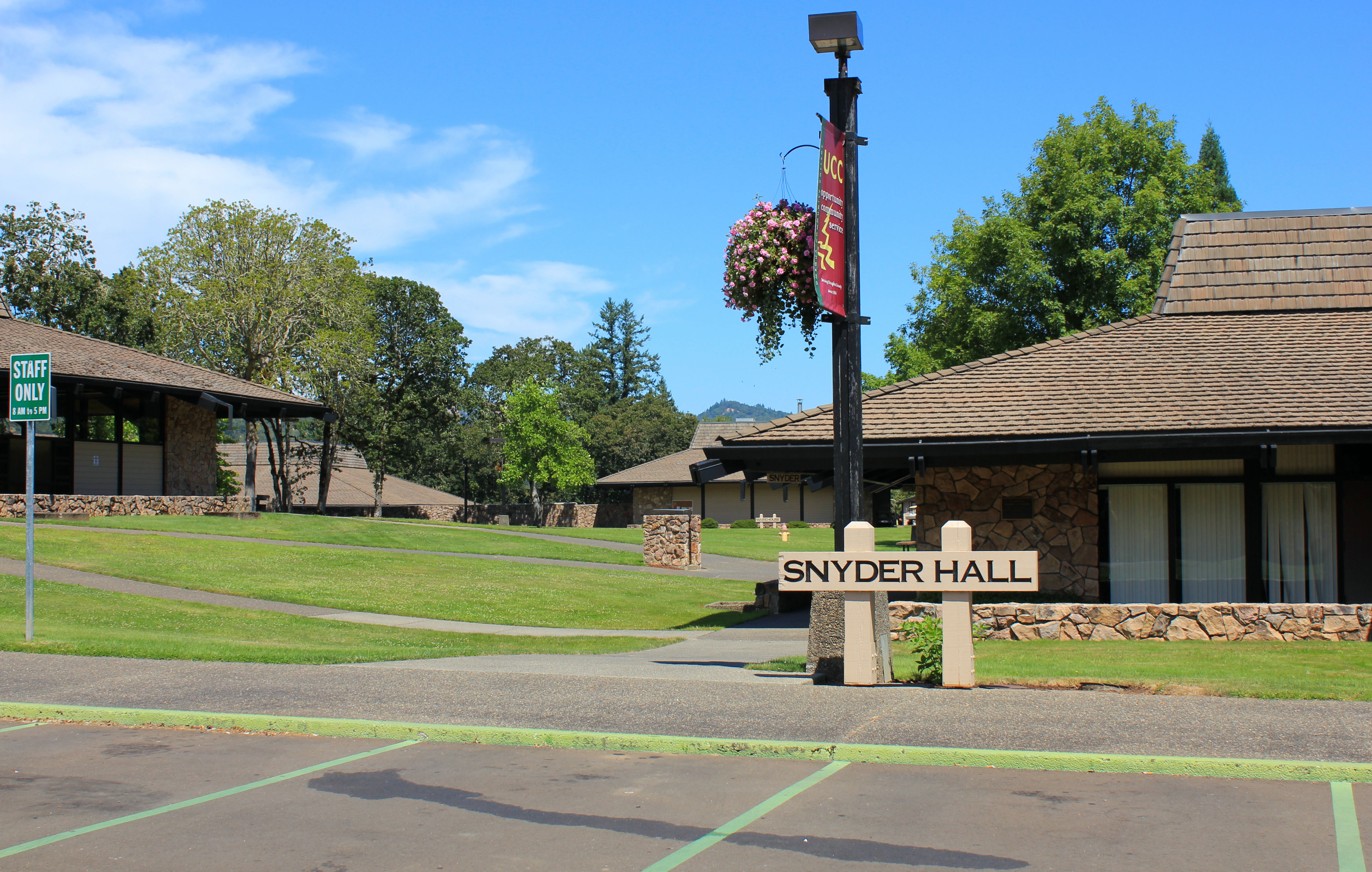 Snyder Hall at Umpqua Community College, Oregon, USA. This was the scene of the Umpqua Community College shooting on October 1, 2015.